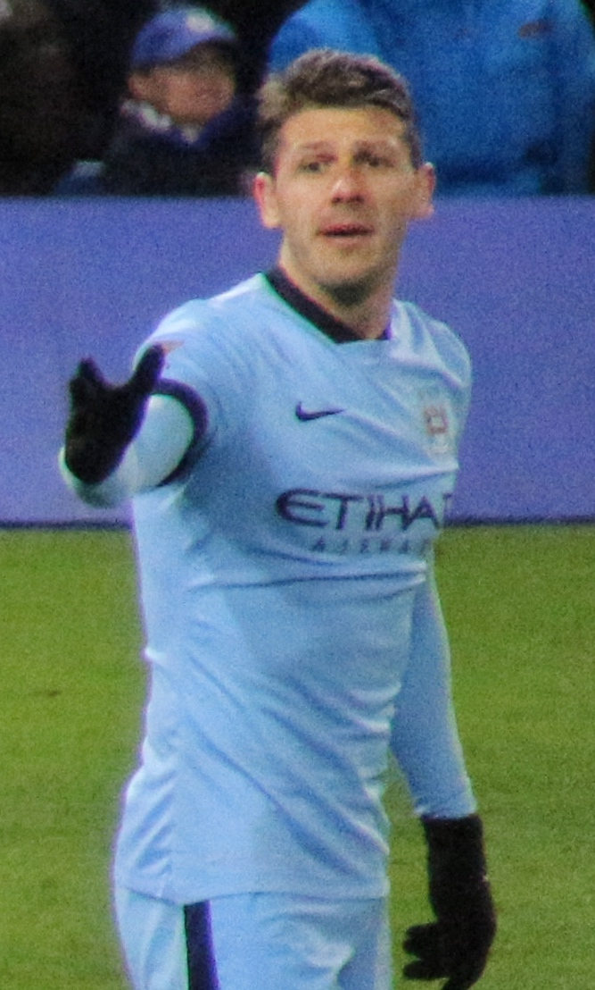 Chelsea 1 Man City 1